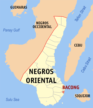 Map of Negros Oriental showing the location of Bacong